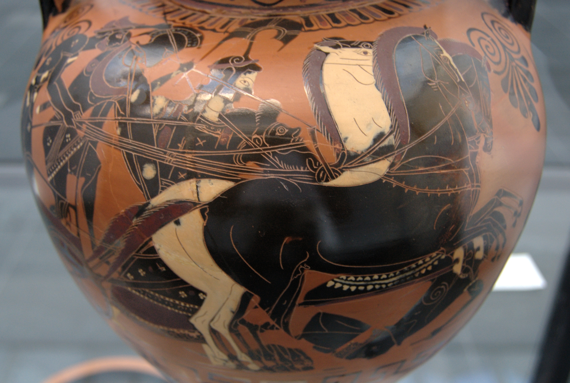 Gigantomachy: Hermes (or Phobos?) and Ares in a chariot, Athena next to them, trampled giant. Side A from an Attic black-figure amphora, 530 (or 510?) BC. From Vulci.